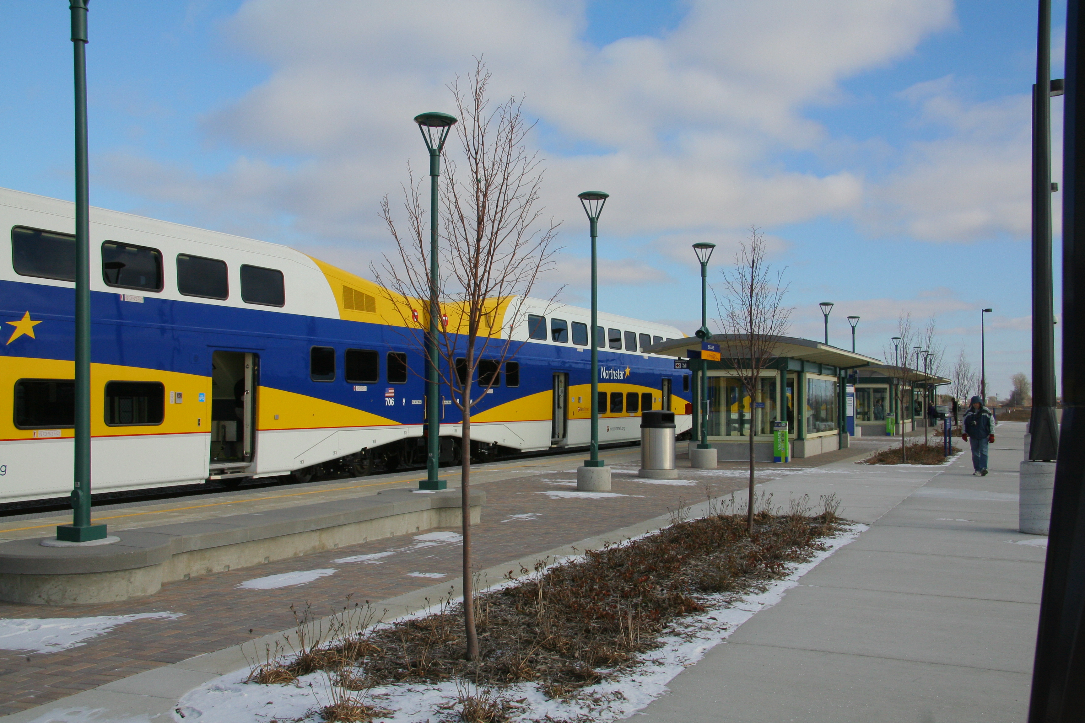 Platform of the Northstar Commuter Rail stop at Big Lake (Metro Transit station) (Big Lake, Minnesota).